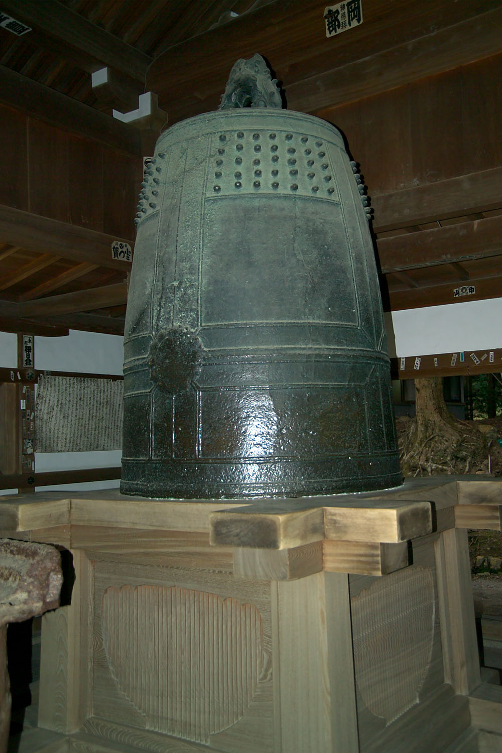 This bell is the Benkei Bell 弁慶の引き摺り鐘 at Mii-dera, a Buddhist temple in Otsu, Shiga Prefecture, Japan. I took the photo and contribute my rights in it to the public domain; individuals and organizations retain rights to images in it.